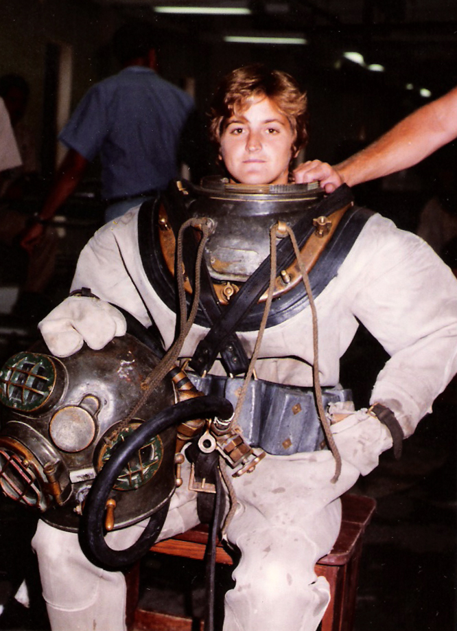 Karen Kohanowich, former U.S. Navy Salvage Diver, Acting Director of NOAA's National Undersea Research Program (NURP), and NEEMO 10 aquanaut, wearing a Mark V diving rig during her service in the Navy.